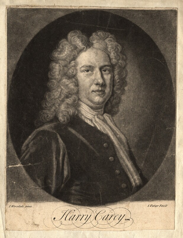 Henry Carey was , an English poet, dramatist and song-writer.